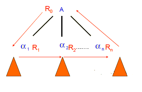 we are the owner